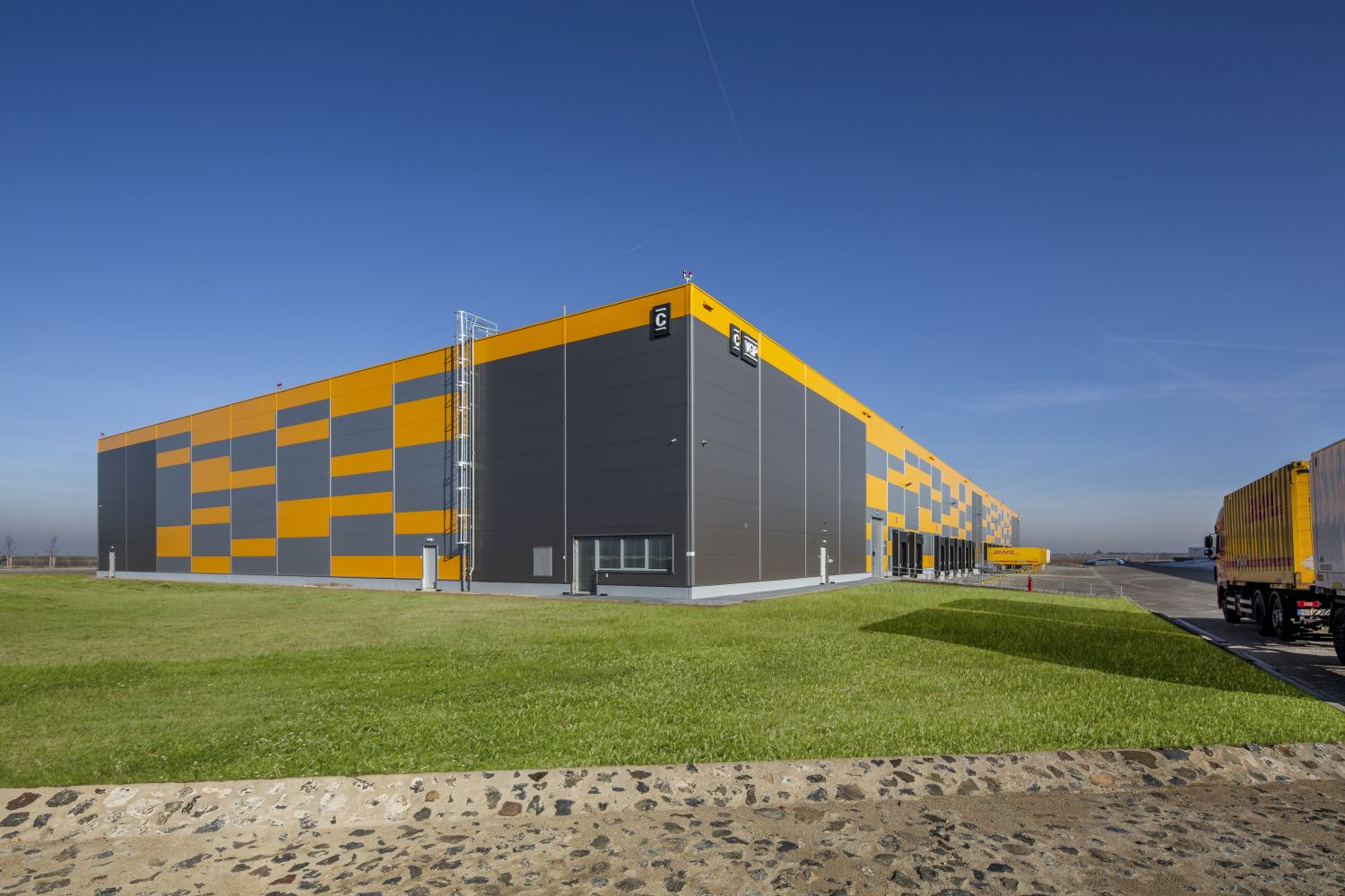 VGP industrial park